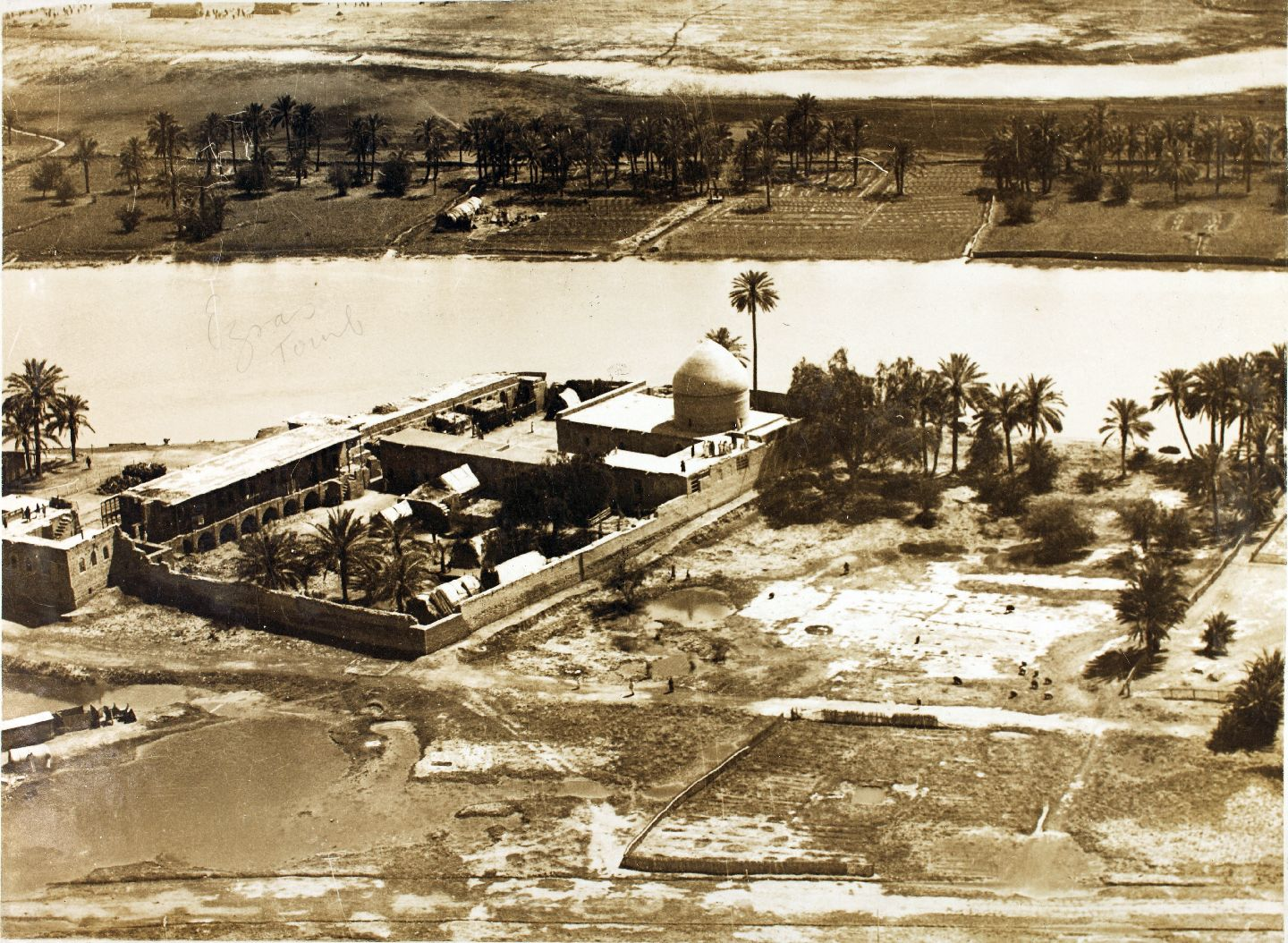 View of River & Ezra's Tomb, Iraq